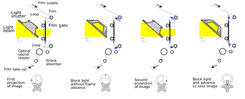 English language and layout modification of original French language commons image by User:Cdang, :Image:Cinema_projection_4_temps.png 838 wide by 340 high. Modified and uploaded by User:Leonard G.